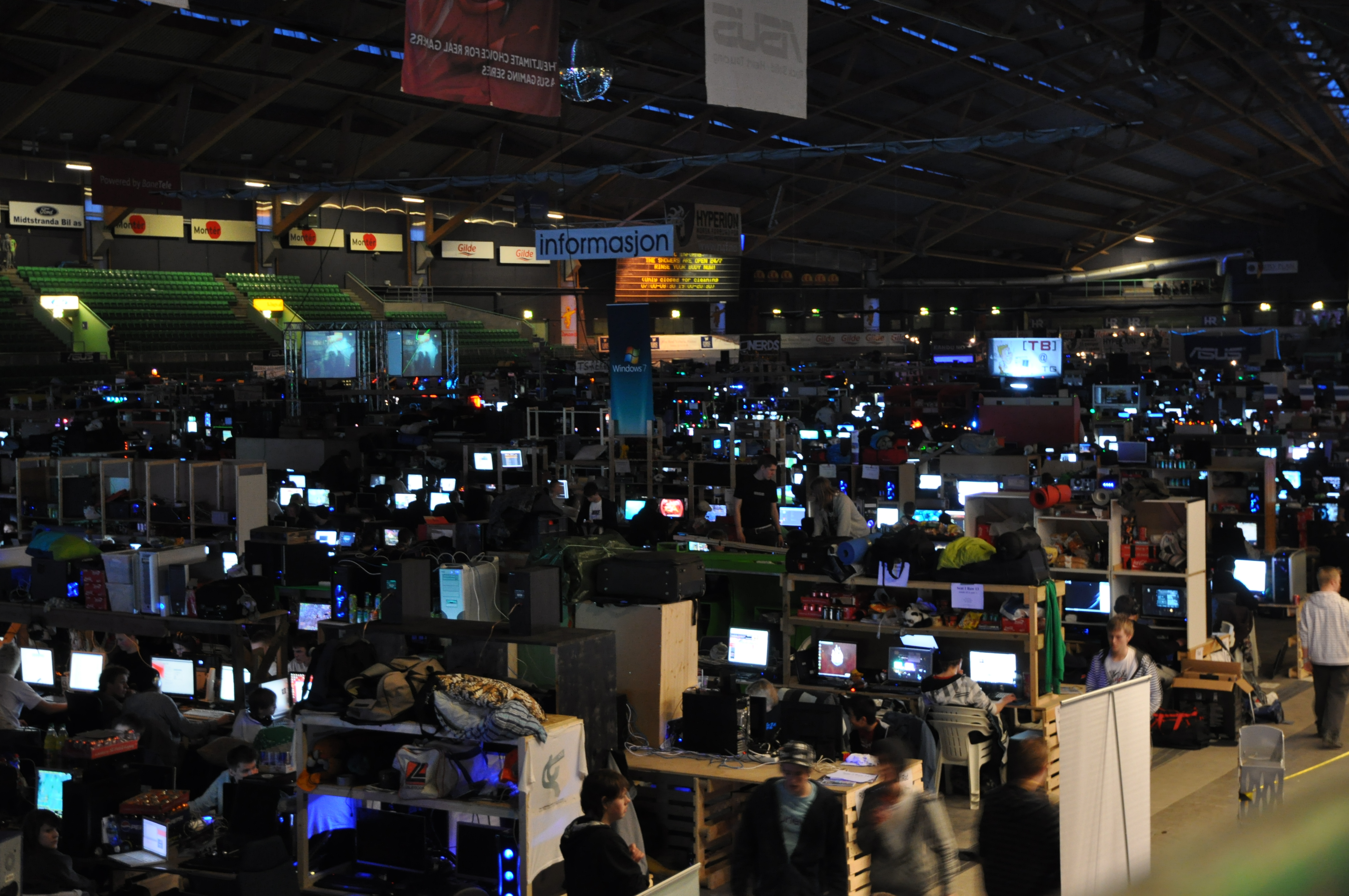 The Gathering 2009 in Hamar, Hedmark. Home of 5200++ geeks, nerds, casuals and lots of other interesting people.